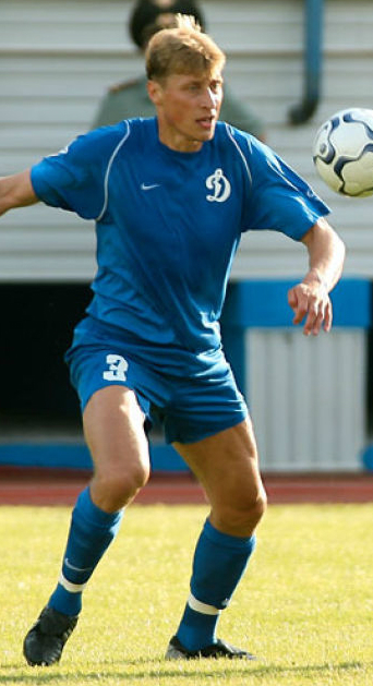 Kirill Terentyev in action for FC Dynamo Bryansk